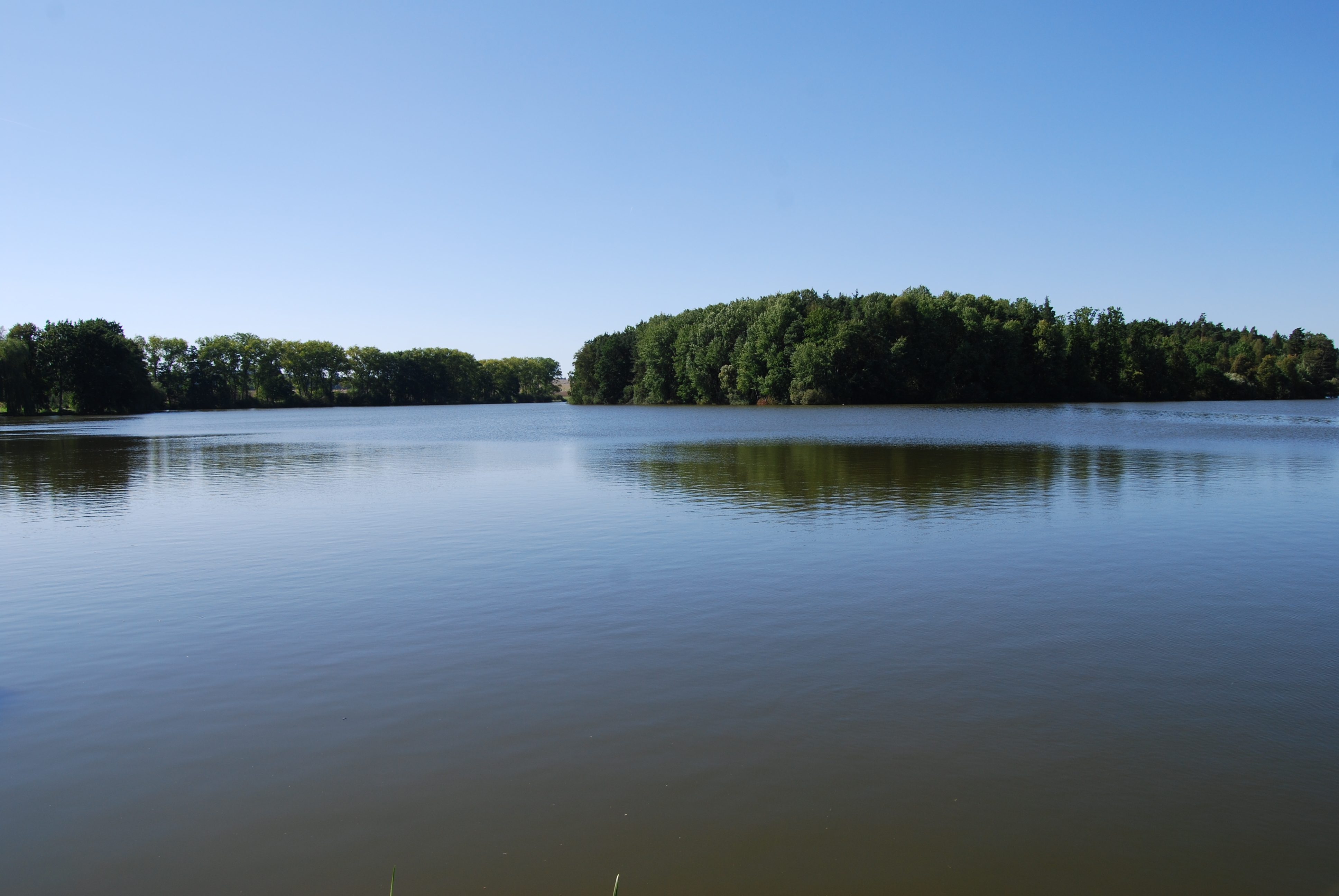 Velký Borovanský rybník (pond) in Pisek District, Czech Republic.